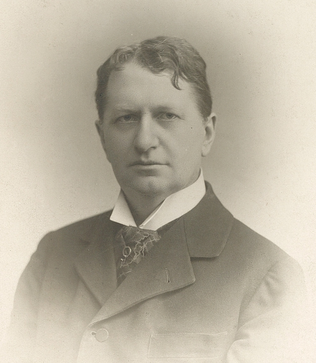 Depicted person: Berent Schanche – Norwegian actor